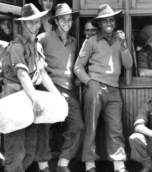 Innisfail, North Queensland, Australia. Troops of the 2/7th Infantry Battalion in the carriages and on the station platform waiting for the south-bound leave train to start. Shown: NX111740 Private (Pte) R. Chapman (1); Corporal (Cpl) Howsan (2); VX36219 Sergeant (Sgt) A. S. Haynes (3); VX13068 Sgt Congress (4); VX12843 Sgt Reg Saunders (5); VX43127 Pte L. Brodie (6); VX12370 Cpl. J. W. Jones (7); VX59057 Pte A. M. L. McLuckie (8); VX13672 Pte R. Parsons (9): VX55851 Pte Farnell (10); VX556791 Pte C. J. Spence (11); VX44293 Pte R. Wilton (12); VX33134 Pte A. G. Dorecott (13); NX58704 Pte N. Watson (14); Pte Toynton (15); VX16560 Pte W. Kann (16).